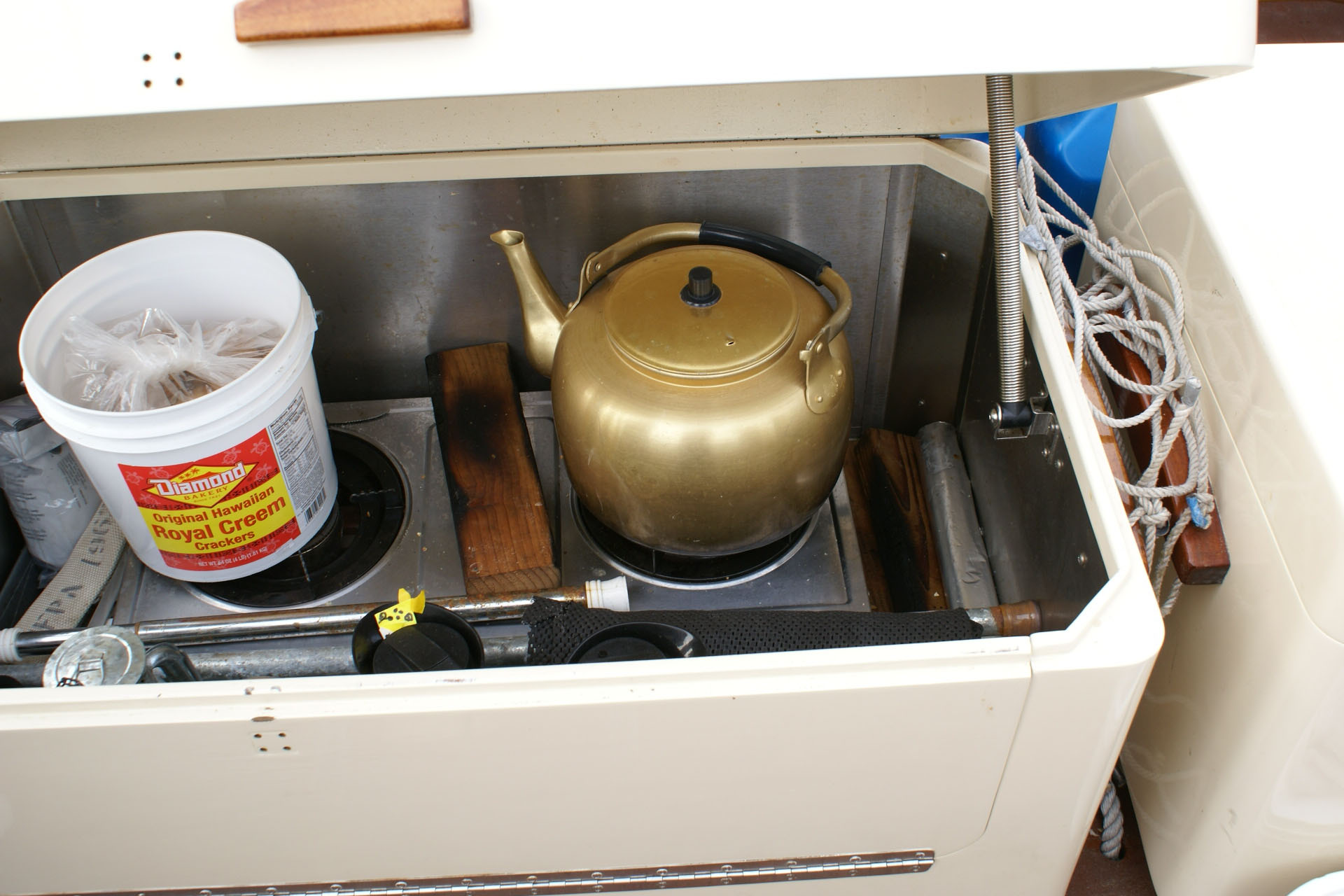 Hokule'a's galley. Yakan and a Holy bucket of the Diamond Bakery.